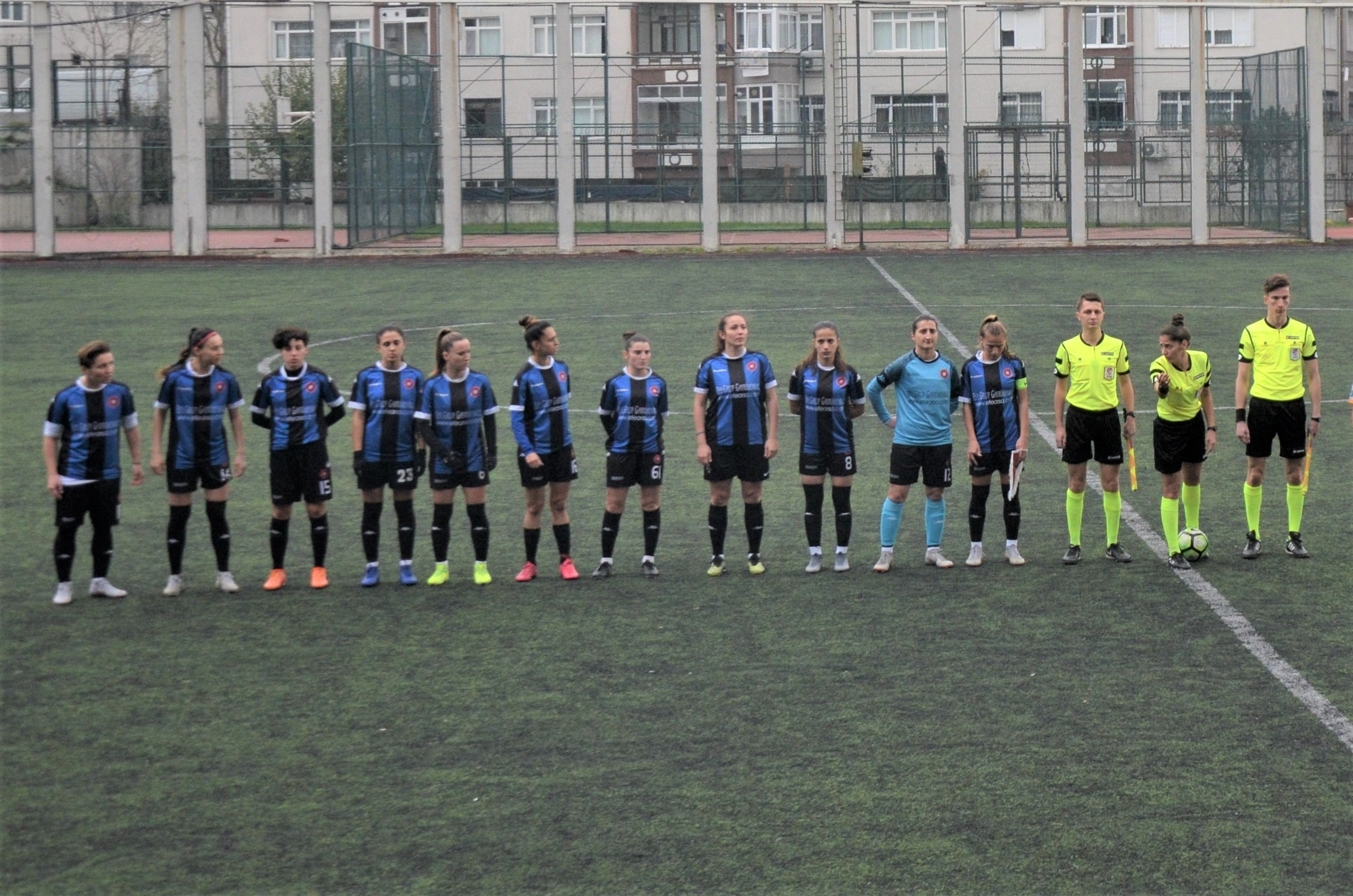 Fatih Vatan Spor team (blue/black) in the 2019-20 Women's First League season's home match against ALG Spor.